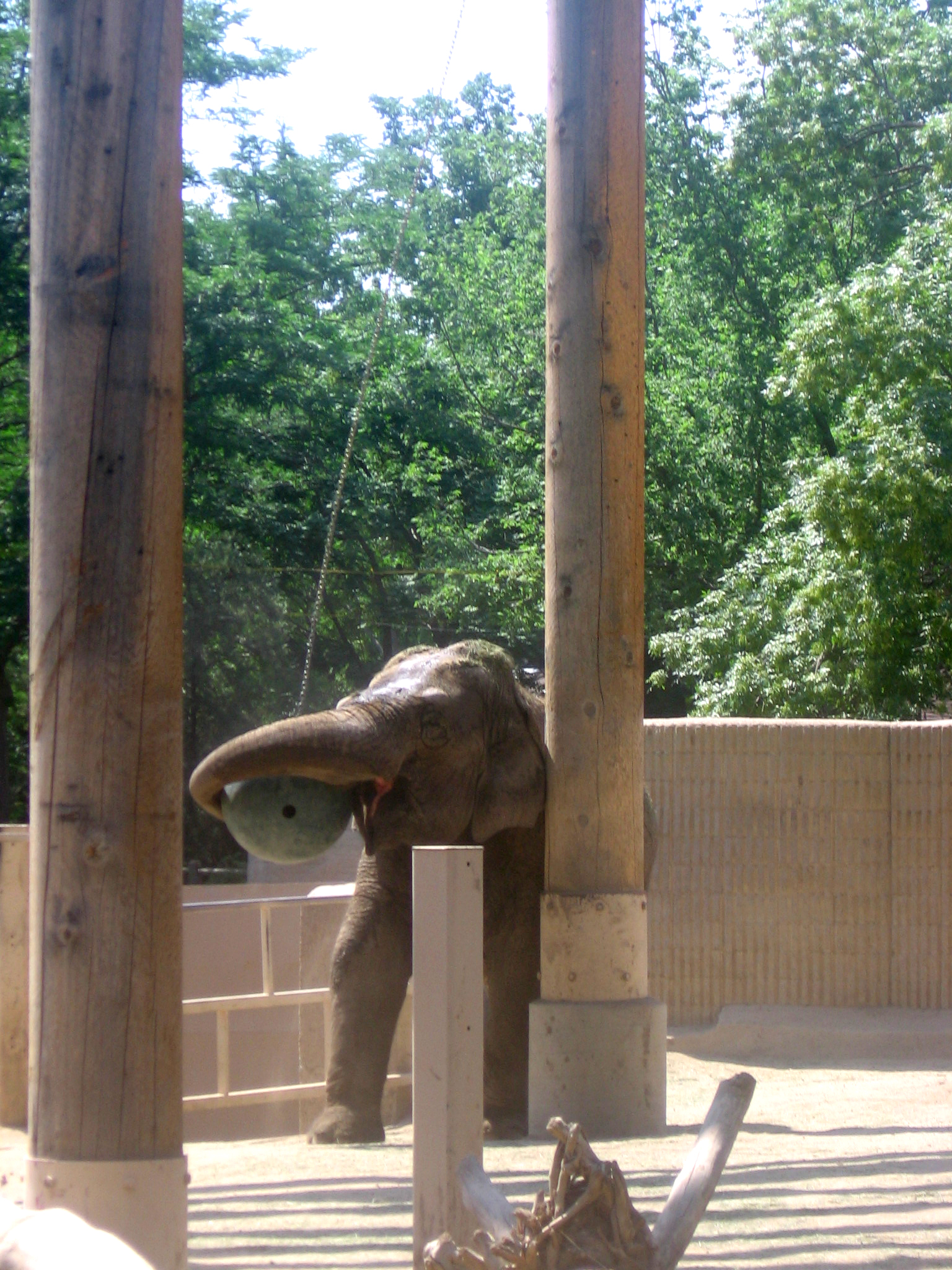 Asian elephant at the Denver Zoo, playing with a ball provided as environmental enrichment